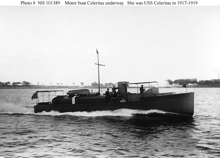 The motorboat Celeritas prior to her United States Navy service as the patrol vessel .